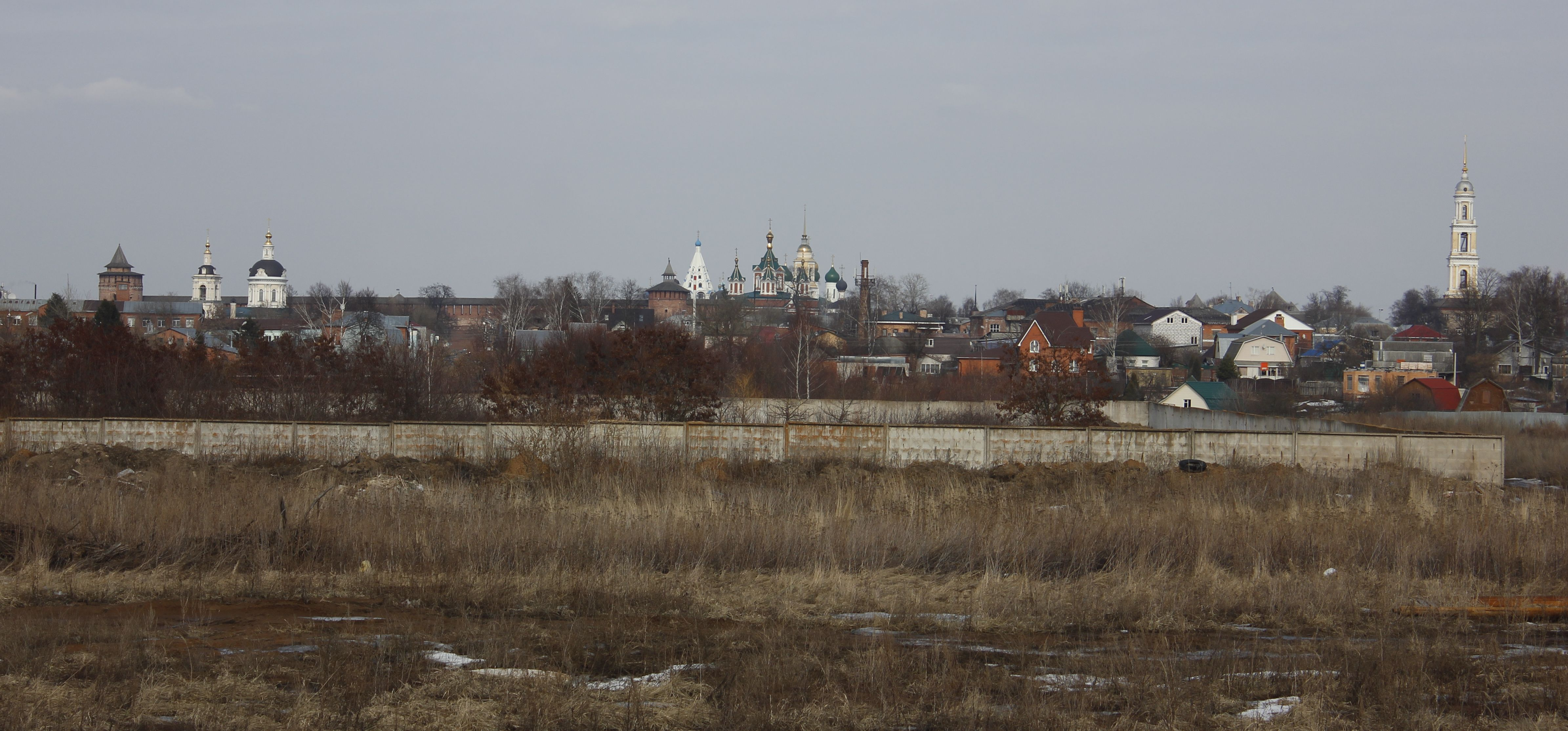 The place where the ammunition depot was located